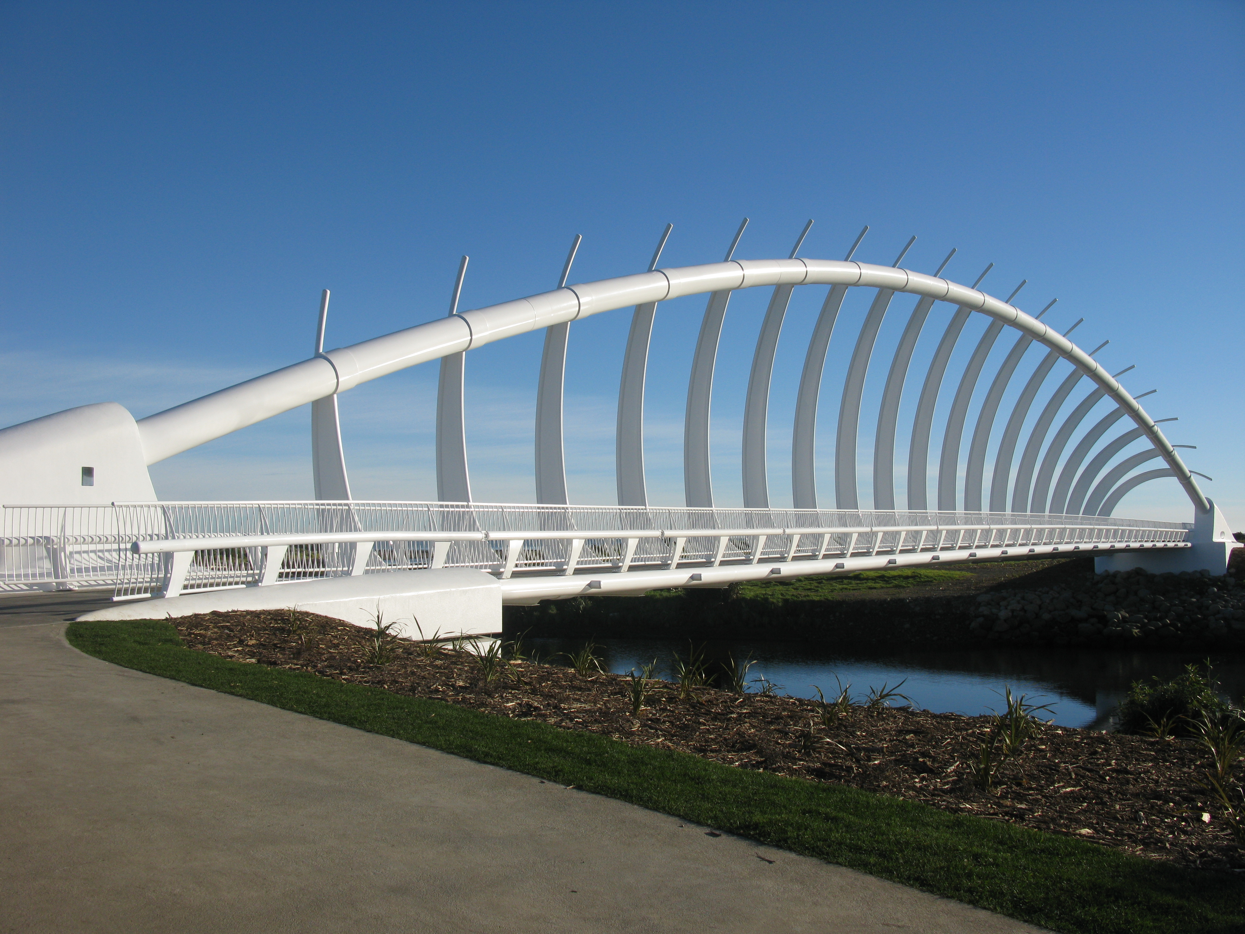 Bridge over the Waiwhakaiho River. Designed to look like a breaking wave whilst creating a natural frame around Mount Taranaki.